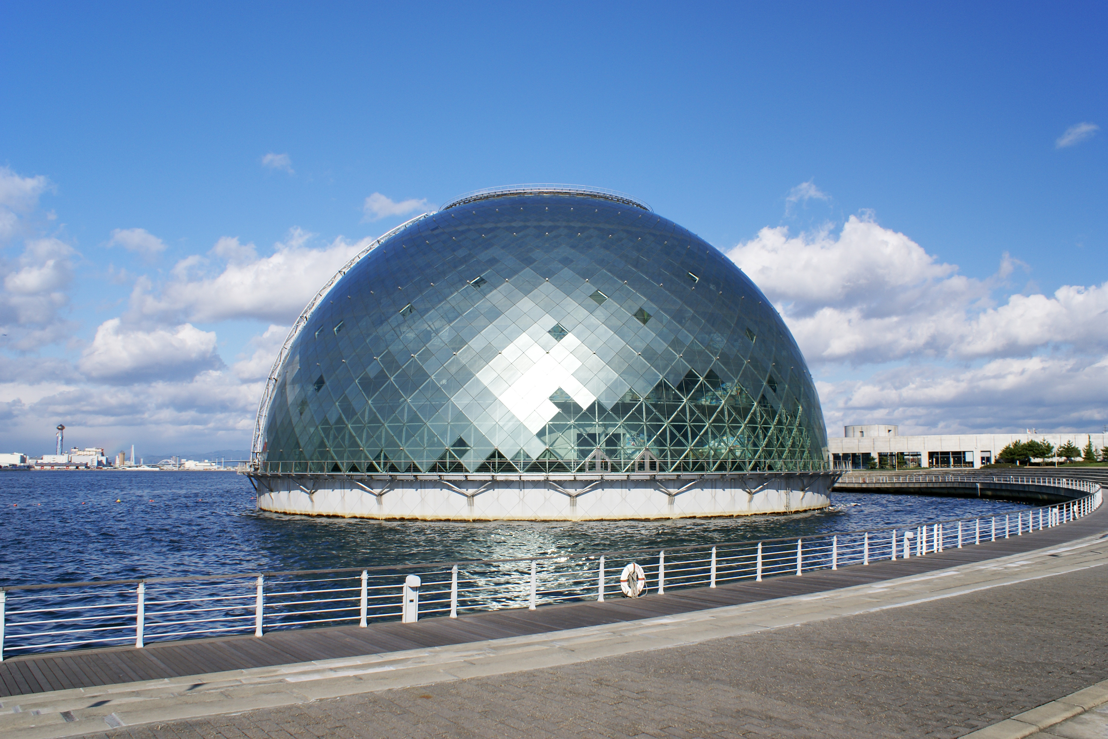 Osaka Maritime Museum in Osaka, Osaka prefecture, Japan